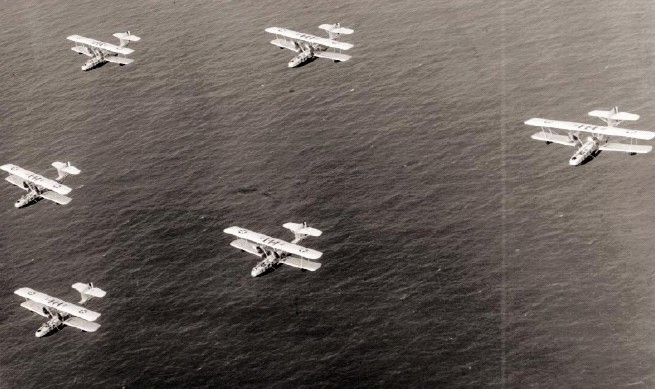 Six U.S. Navy Douglas PD-1 flying boats of patrol squadron VP-2D15 in 1930. "D15" designated the 15th Naval District, as VP-2 was based at Coco Solo, Panama Canal Zone.